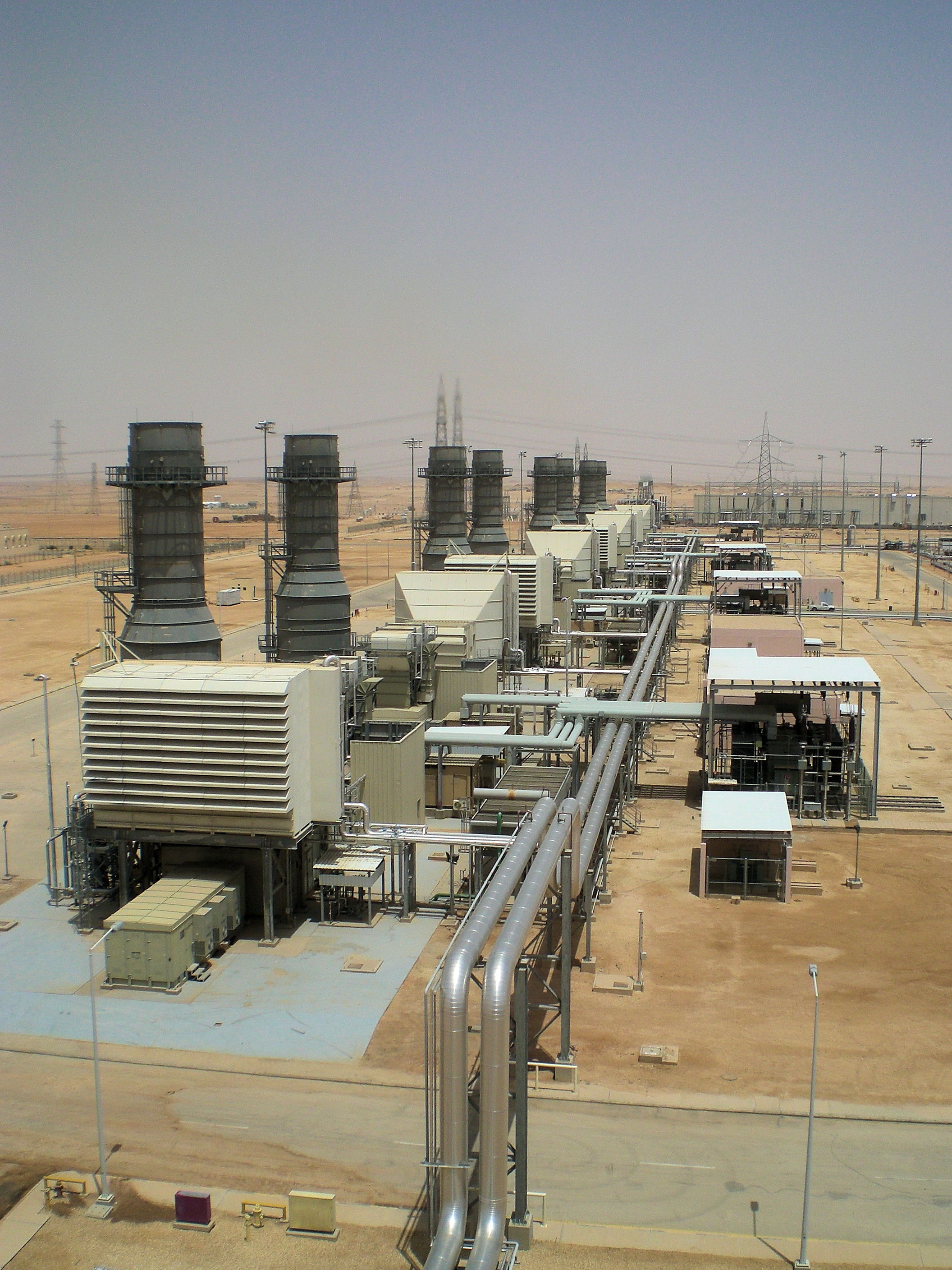 Turbine Inlet Air Cooling System installed in desert dry area, boosting the turbine power output and counteract the high ambient temperature negative effect in power generation